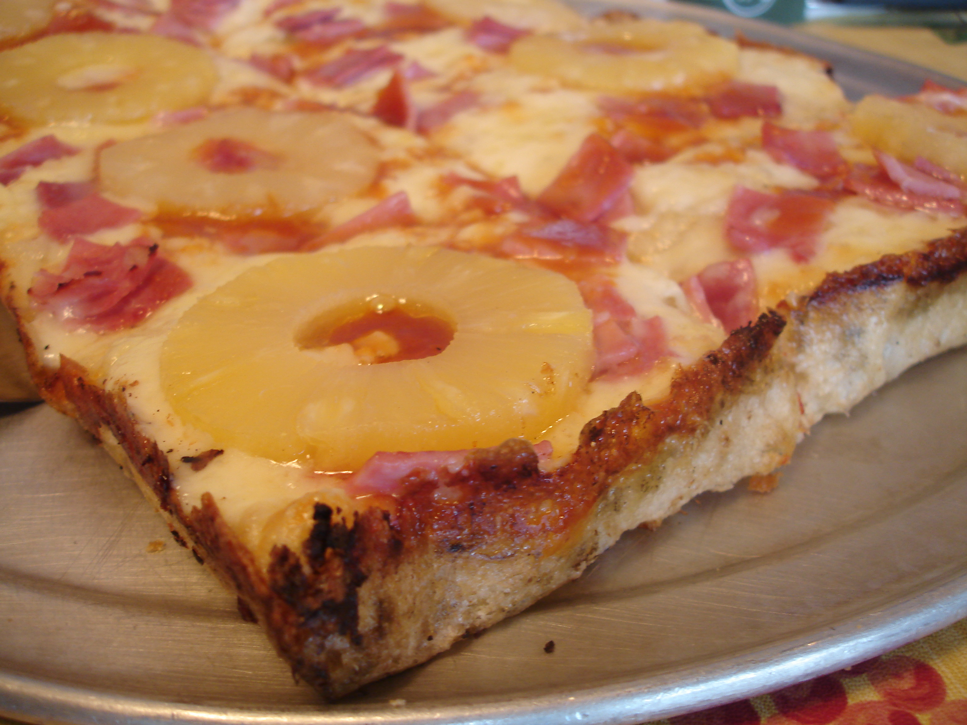 Close-up view of a Hawaiian pan pizza